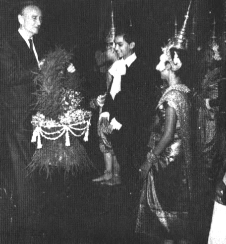 Montana Senator Mike Mansfield offers a bouquet of flowers to Princess Buppha Devi and Prince Sihamoni. The senator and his wife visited Cambodia in 1969.